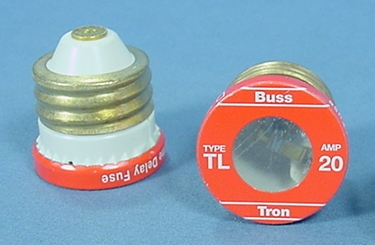 Edison base plug fuses, type TL, 20 amp